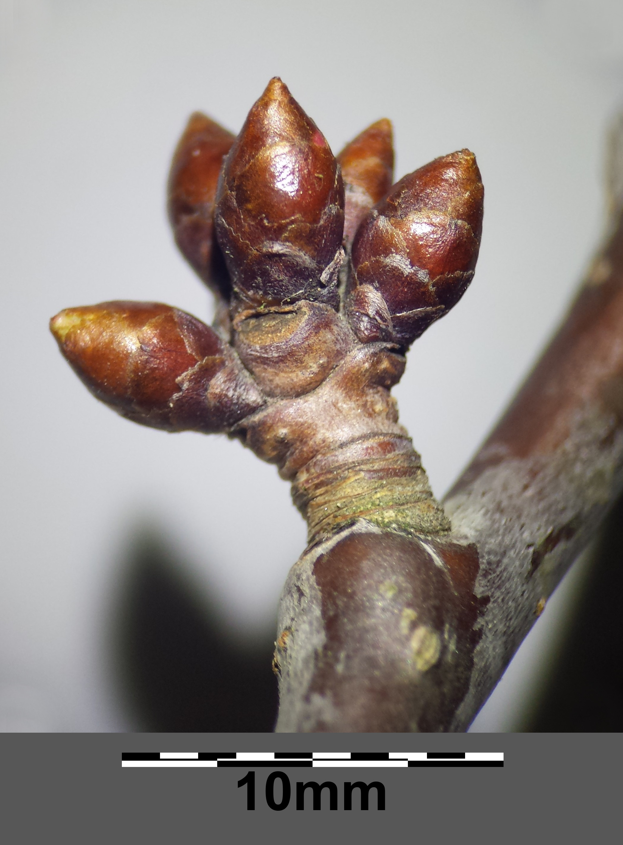 Short shoot with buds Taxonym: Prunus avium subsp. avium ss Fischer et al. EfÖLS 2008 ISBN 978-3-85474-187-9 Location: near Niederhollabrunn, district Korneuburg, Lower Austria - ca. 350 m a.s.l. Habitat: vineyard